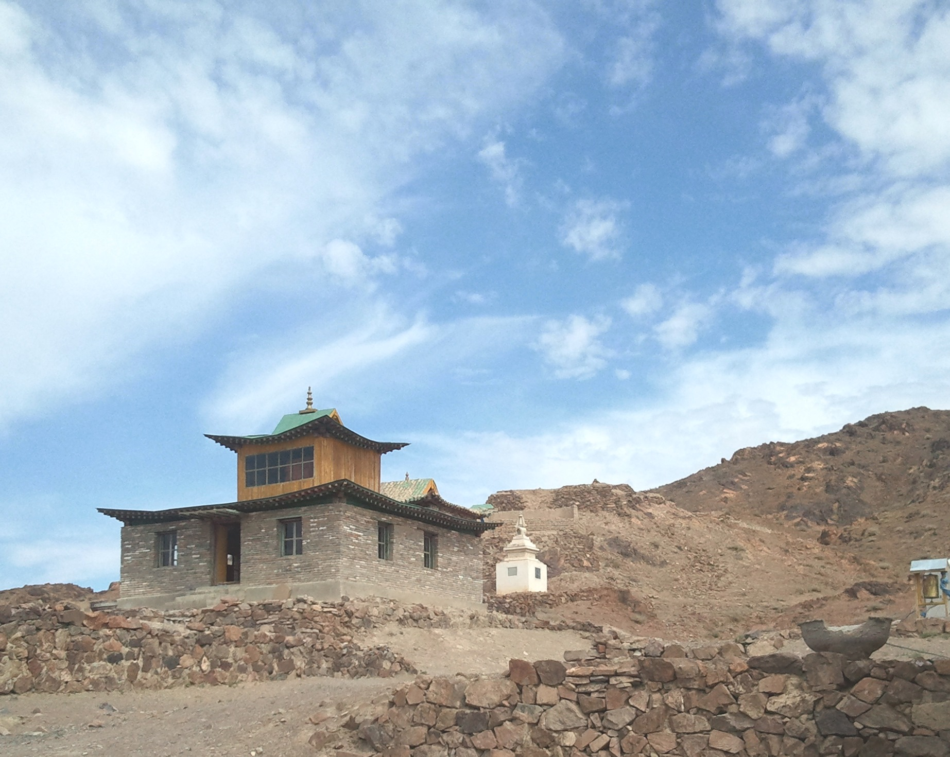 cropped close up of temple at Ongi Monastery